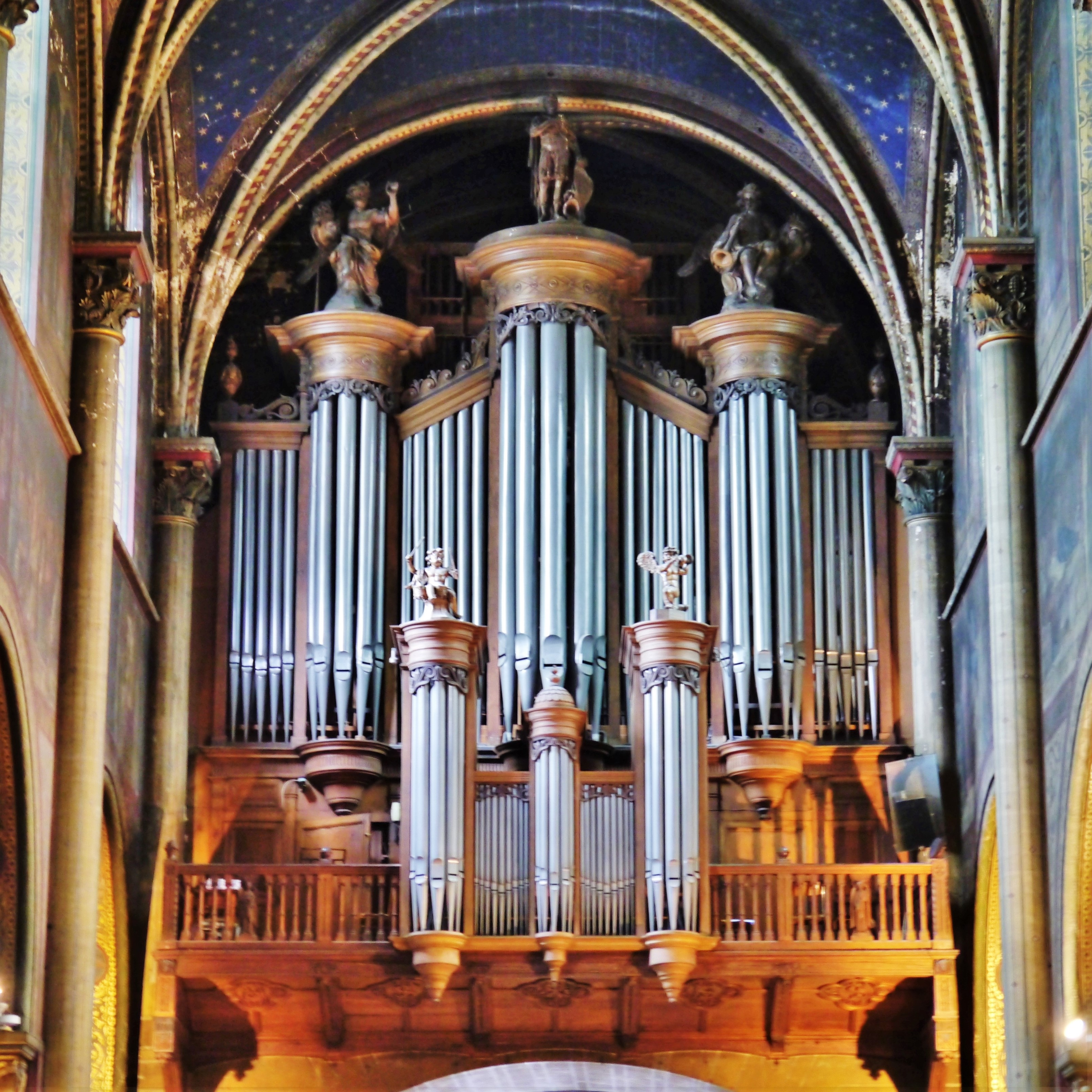 Organ of the Abbey Church of Saint-Germain-des-Prés, Paris, Region of Île-de-France, France